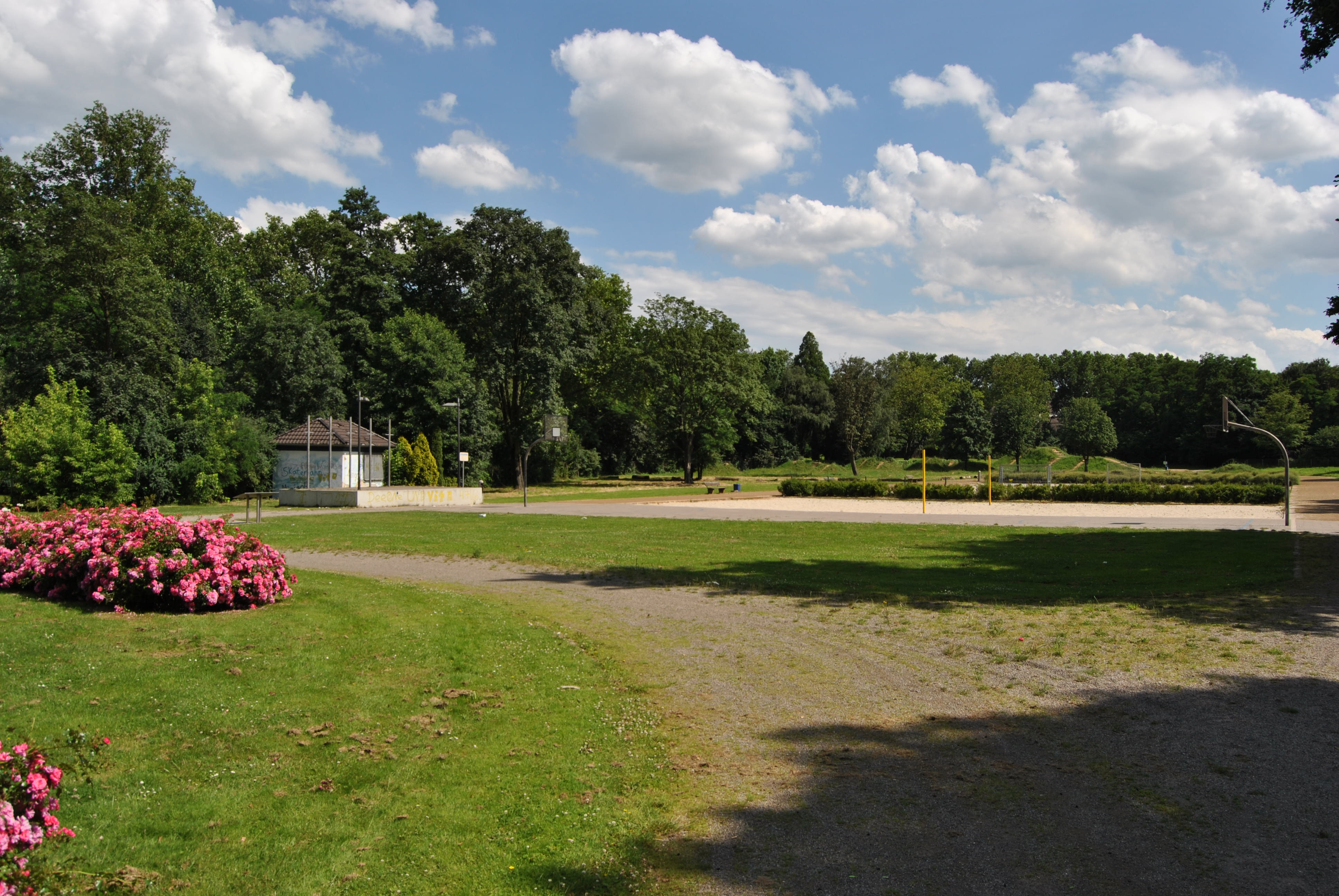 Duisburg (North Rhine-Westphalia, Germany) – borough Hamborn, district Marxloh – Schwelgern Urban Park This image shows a heritage building in Germany, located in the North Rhine-Westphalian city Duisburg (no. 390). This photograph was taken with a Nikon D3000.